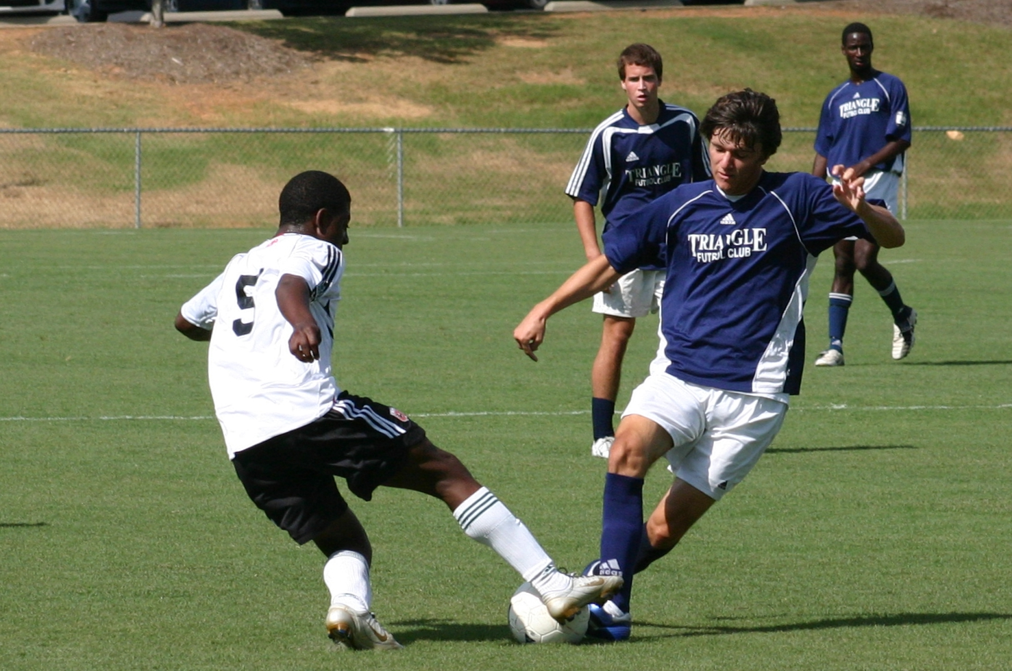 D.C. United U-16 playing Triangle FC in the Super-Y League semifinals in Cary, NC.